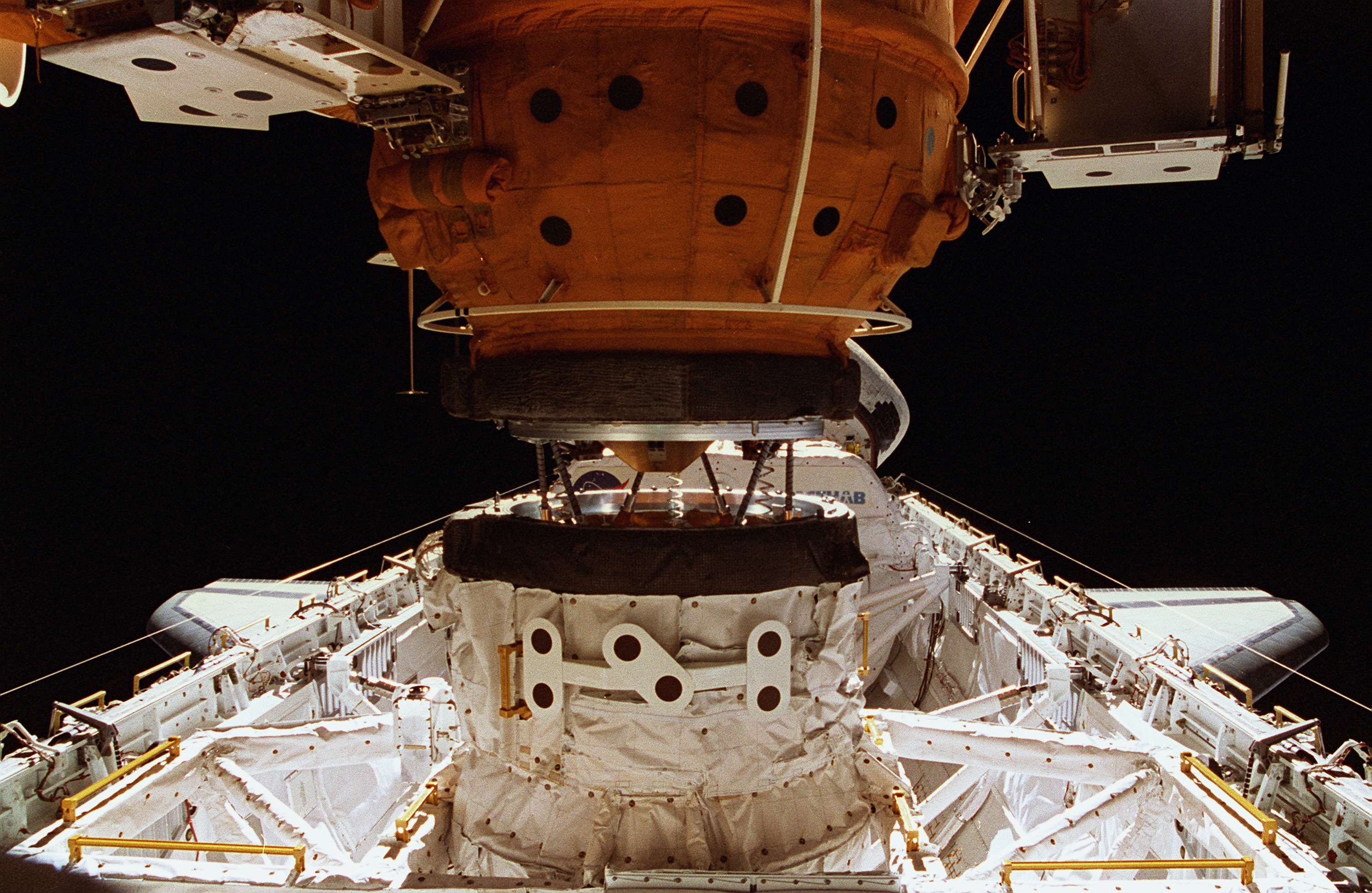 The Androgynous Peripheral Assembly System being used on STS-76 to dock to the Mir Space Station.